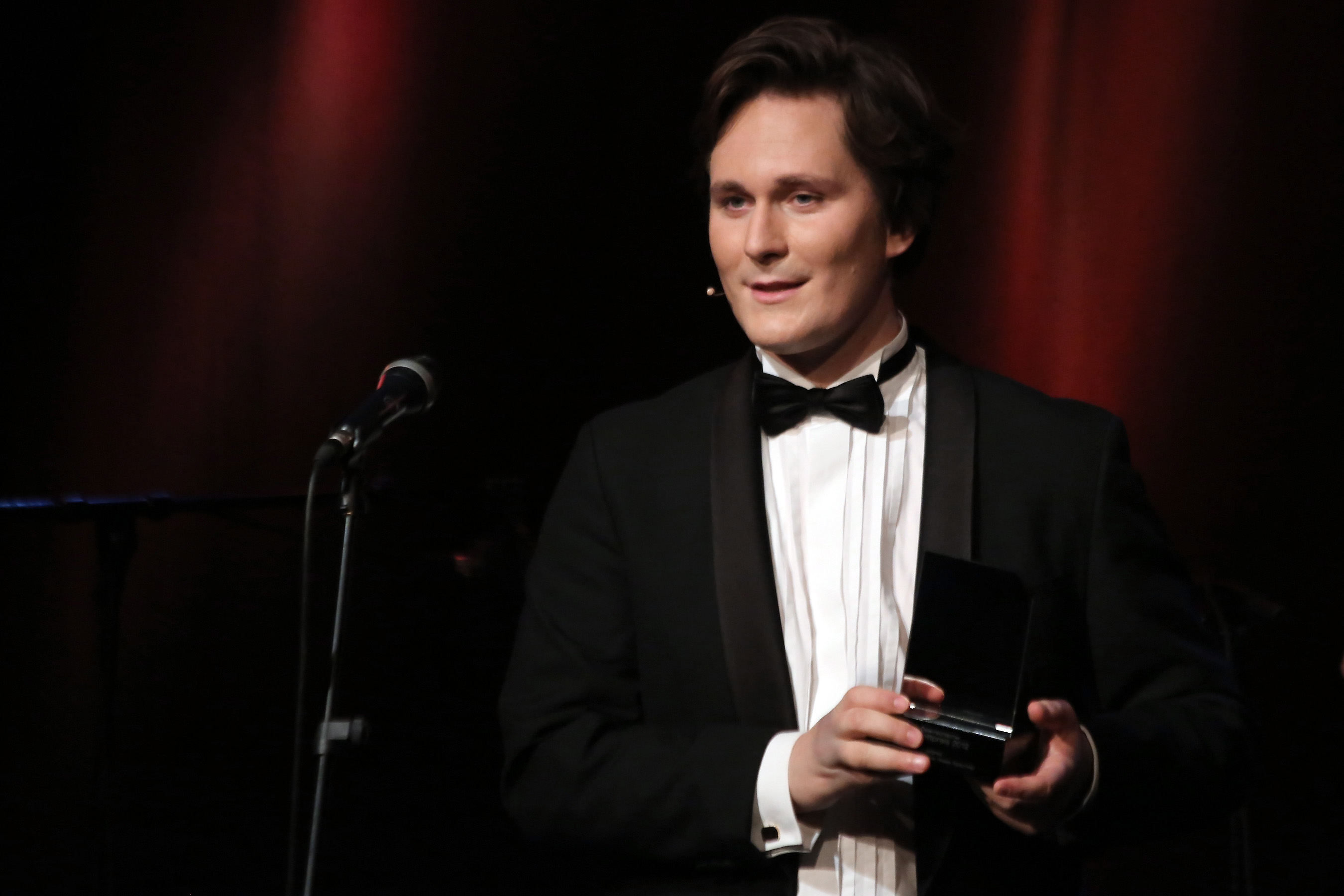 Austrian Cabaret Award 2012 (Porgy & Bess, Vienna).